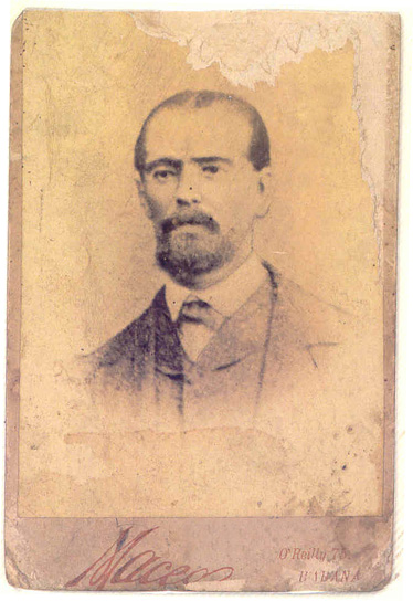 Postcard of the Cuban patriot , poet, musician, and freedom fighter , Perucho Figueredo 1818 - 1870.